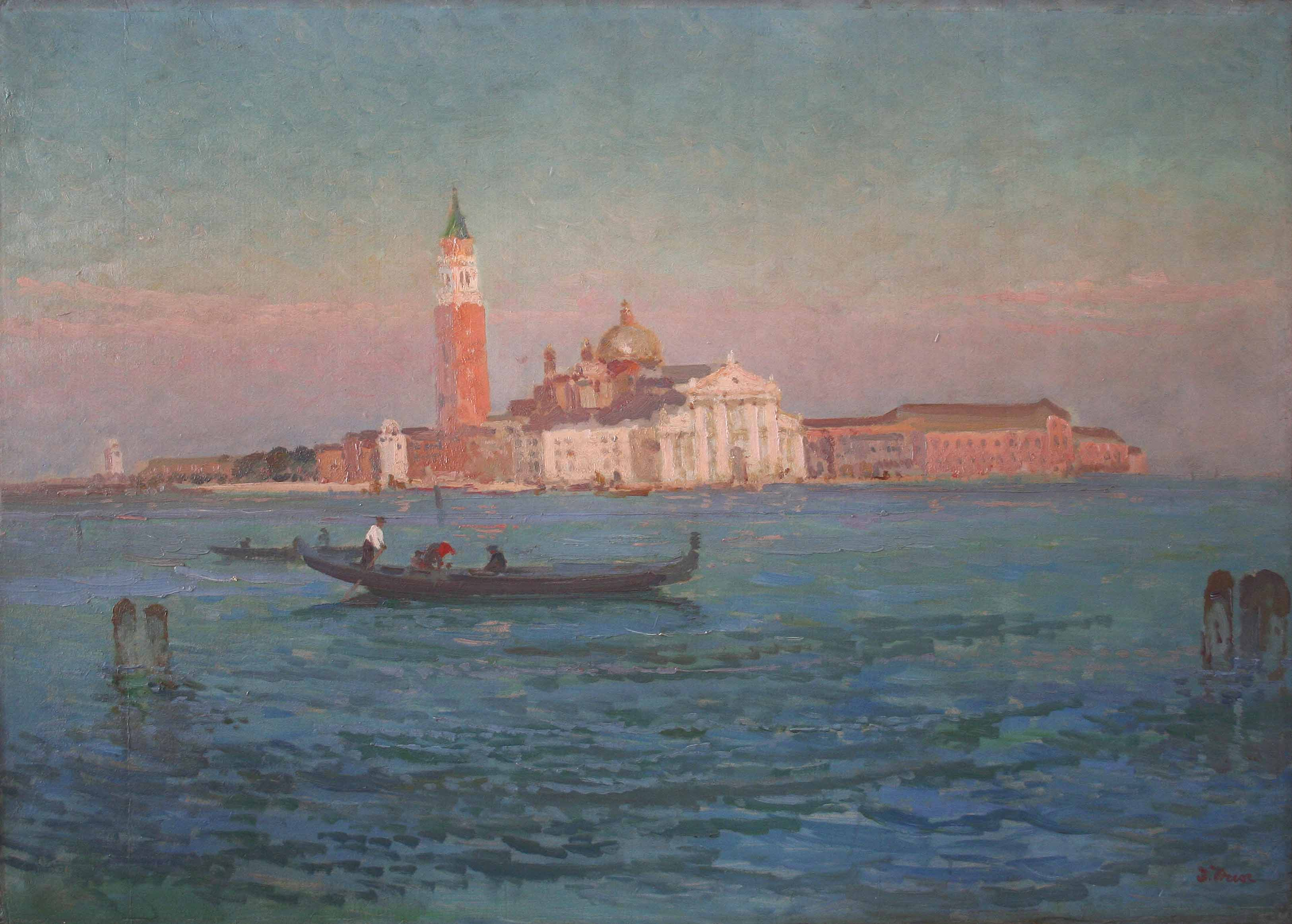 Ivan Trush. Venice (isle San Giorgio Maggiore)